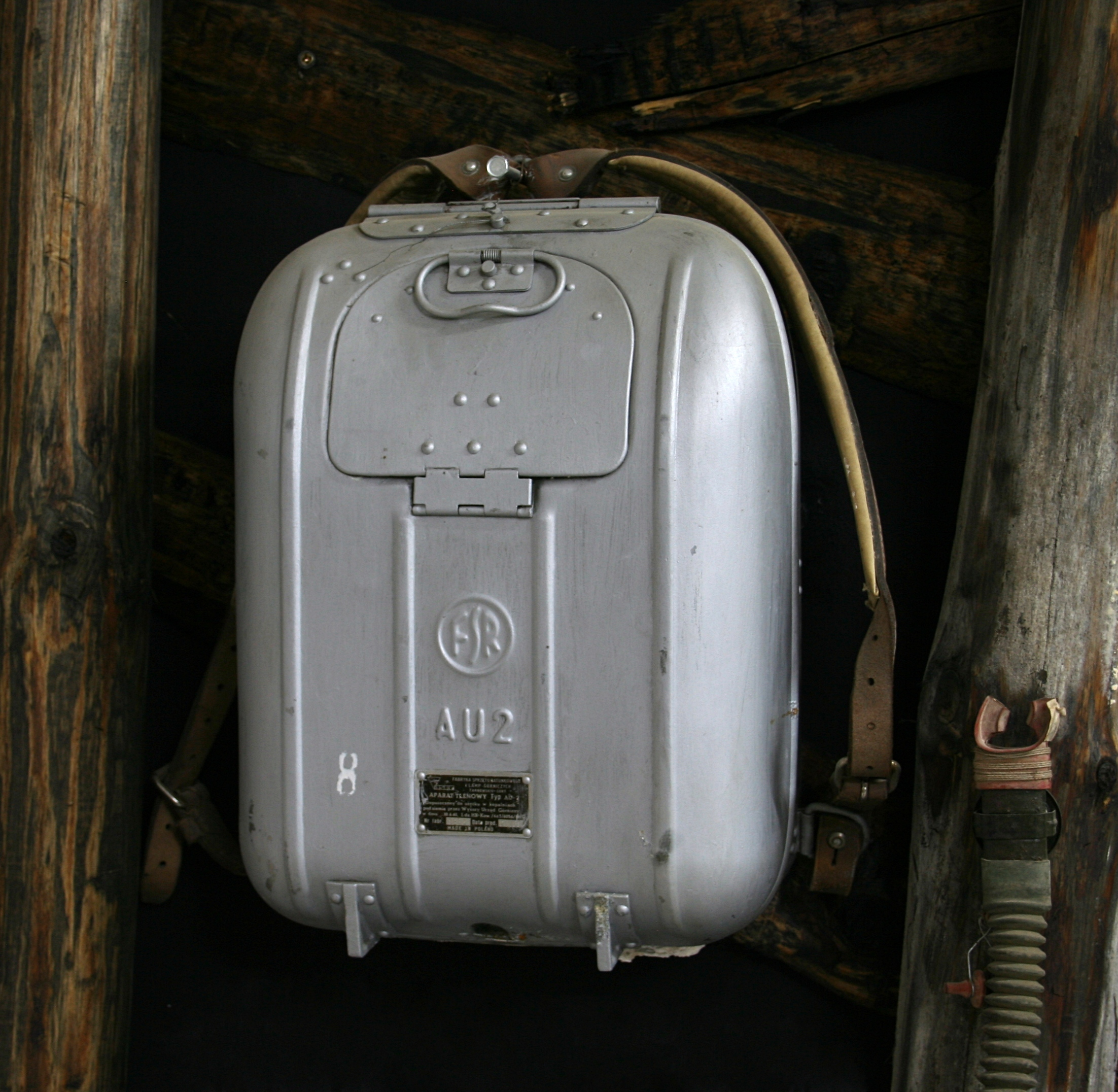 Breathing set (Au-2) made by Faser (Tarnowskie Góry, Poland) used in mines, Museum of Iron Ore Mining in Częstochowa